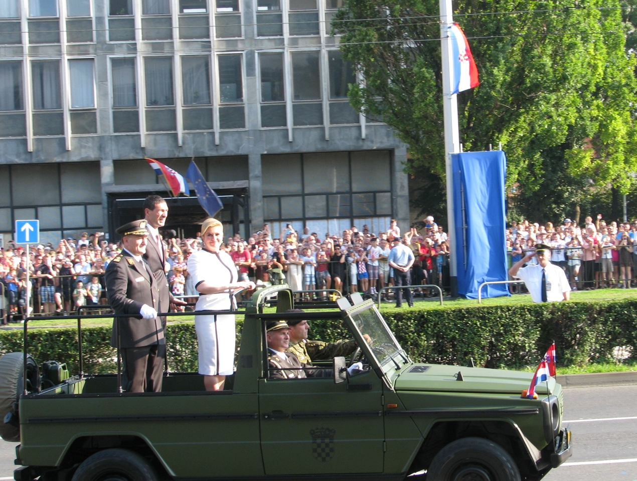 President of Croatia Kolinda Grabar-Kitarović at Military Parade in Zagreb, 4 August 2015Hrvatski: Predsjednica Republike Hrvatske Kolinda Grabar-Kitarović na vojnom mimohodu u Zagrebu, 4. kolovoza 2015.